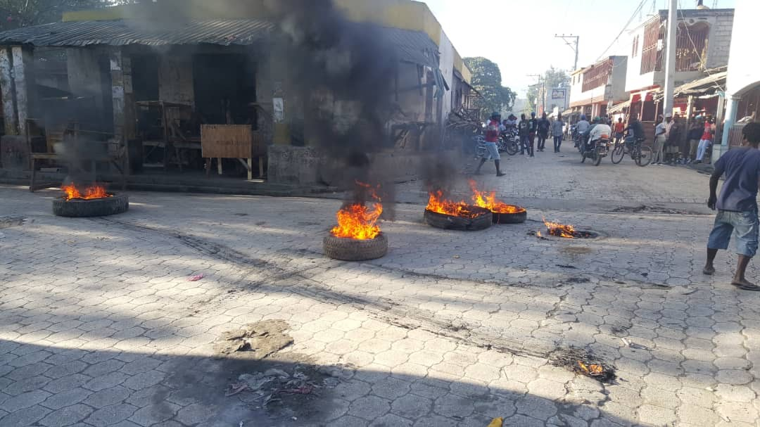 Flaming tires seen early on February 11, 2019, in the streets of Hinche in the center of Haiti.